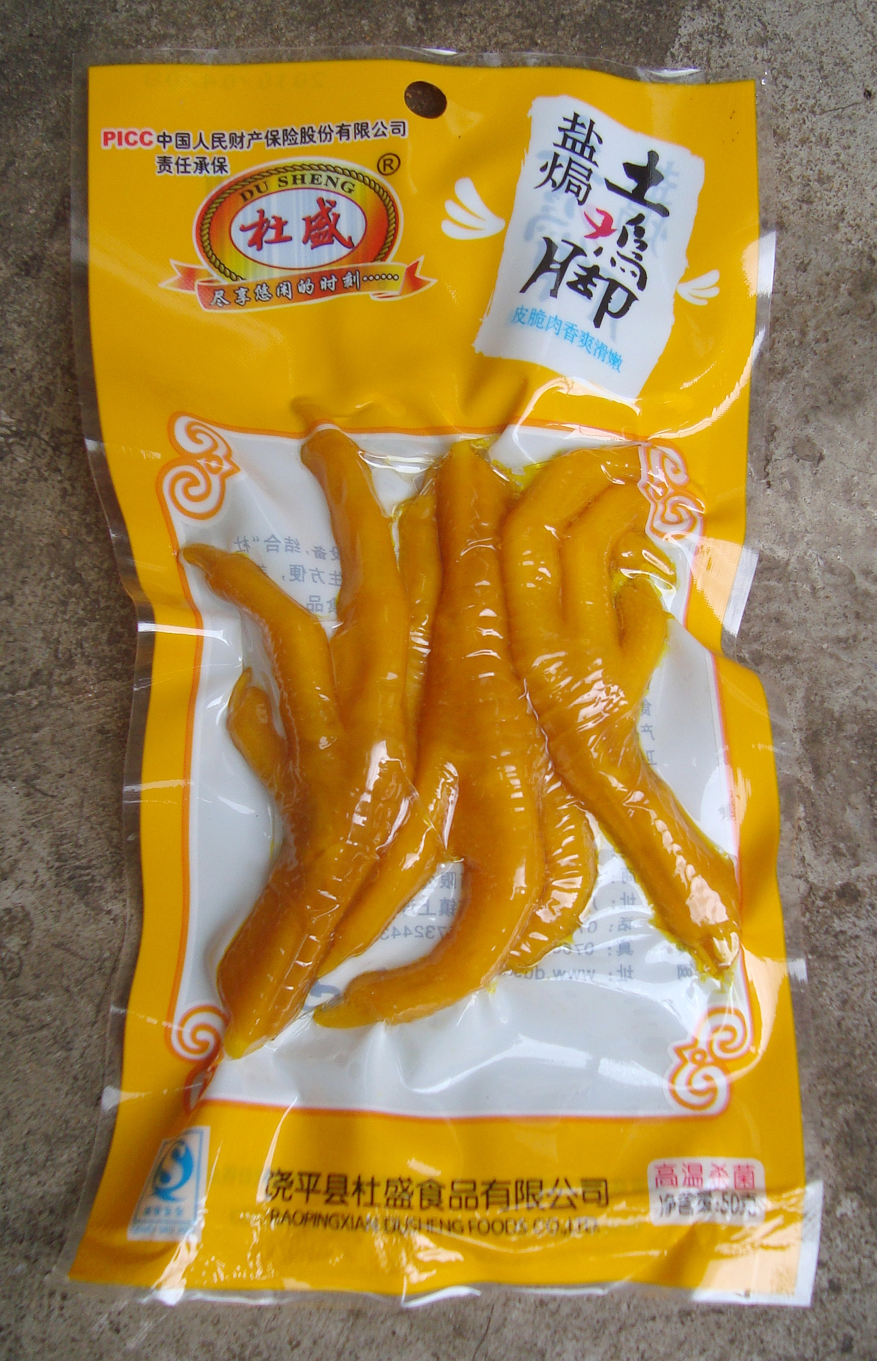 Chicken feet vacuum-packed and ready to eat. Haikou, Hainan, China